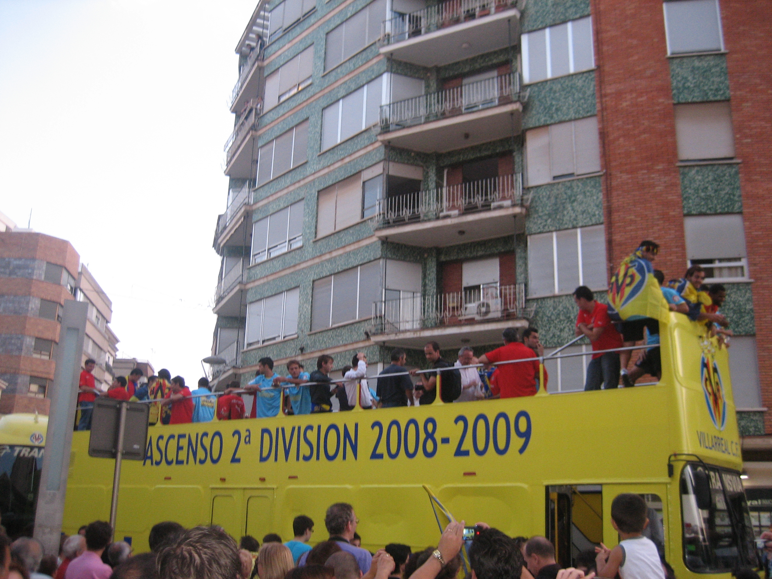 Celebrations of promotion to Second Division of Villarreal C. F. "B"